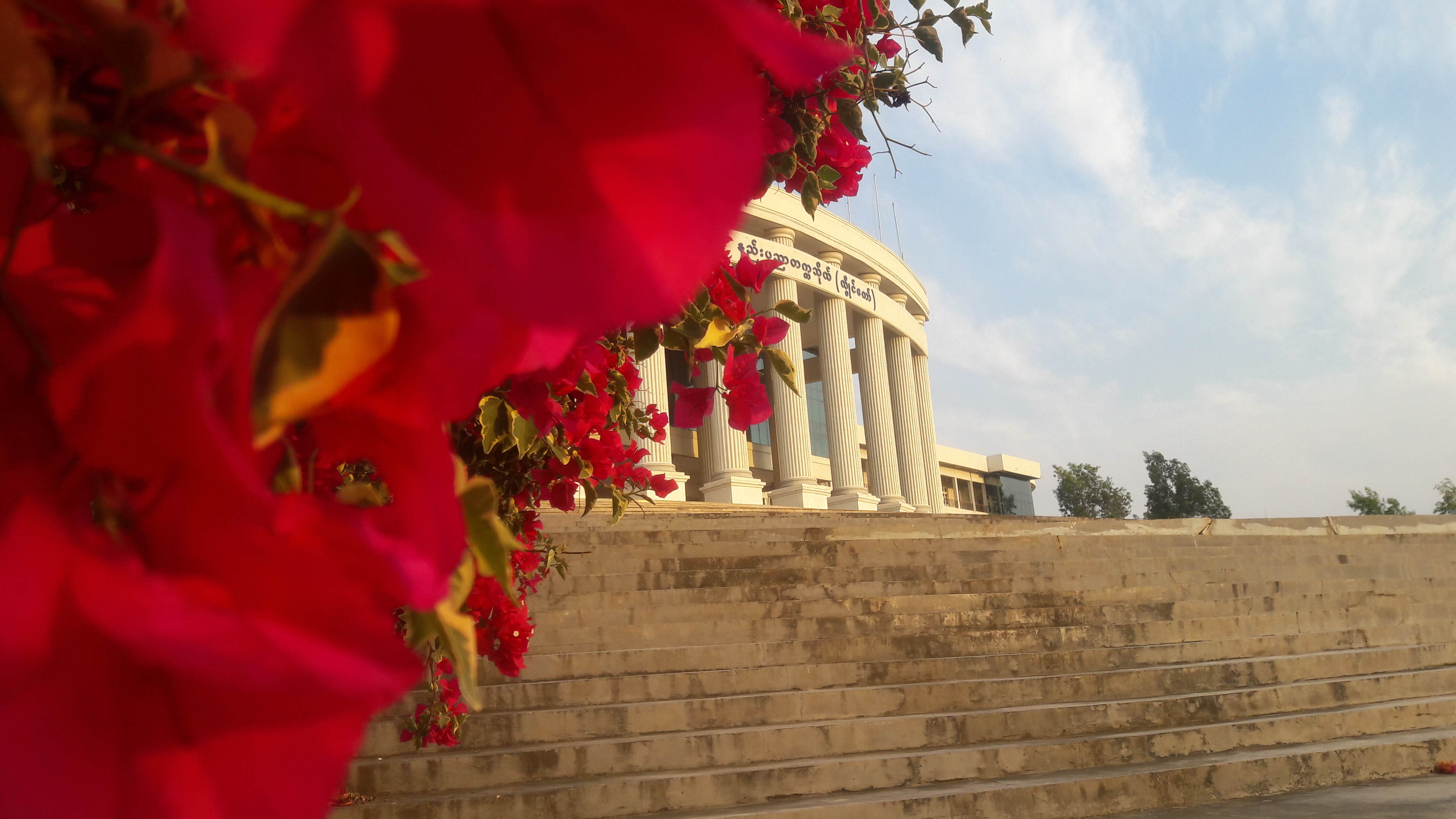 The Main Building of Technological University, Loikaw.